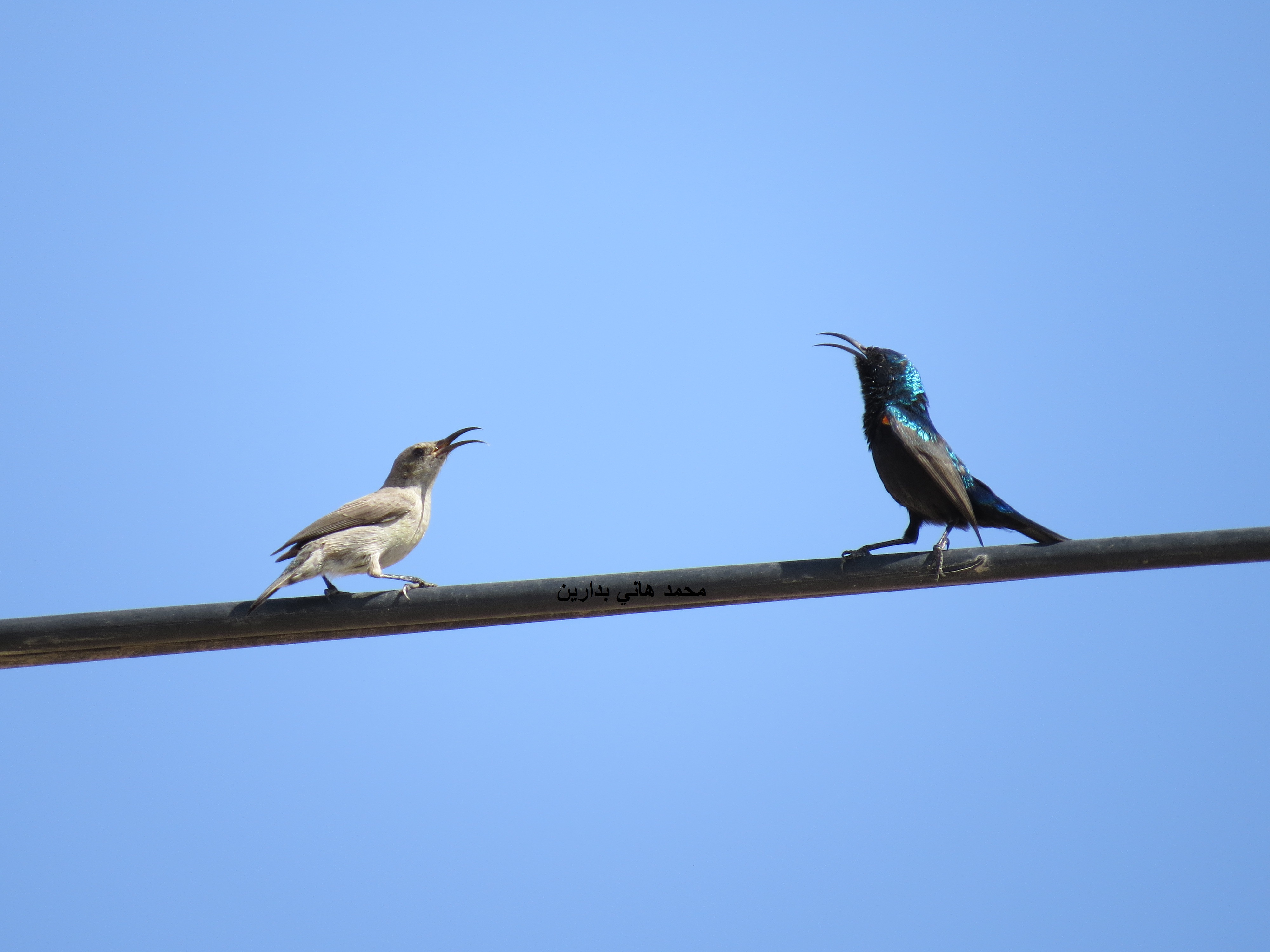 Nectarinia osea